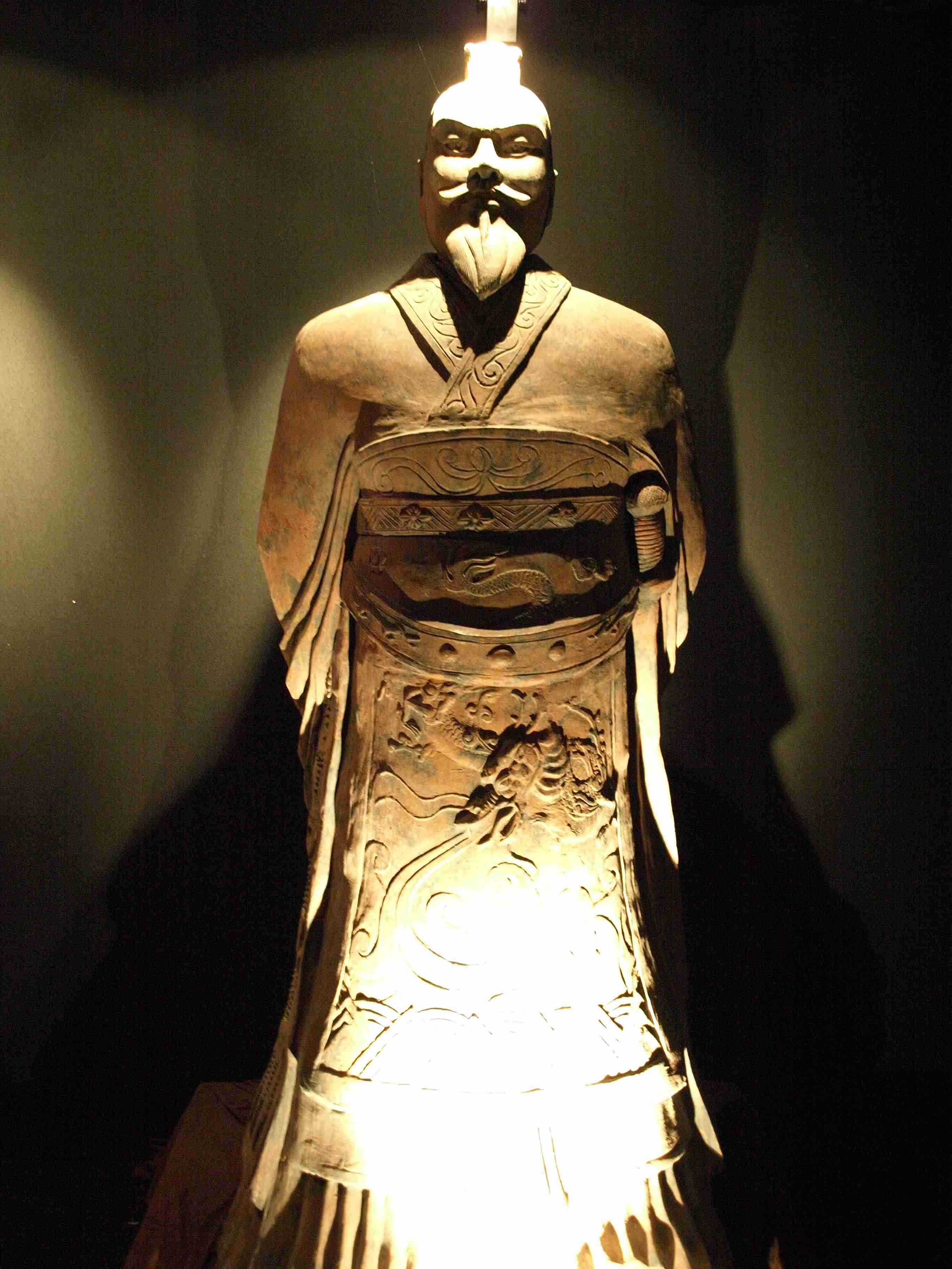 Statue of emperor Qin, China (reconstitution)